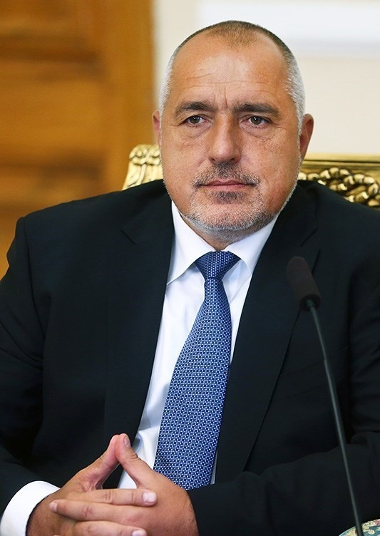 Boyko Borissov